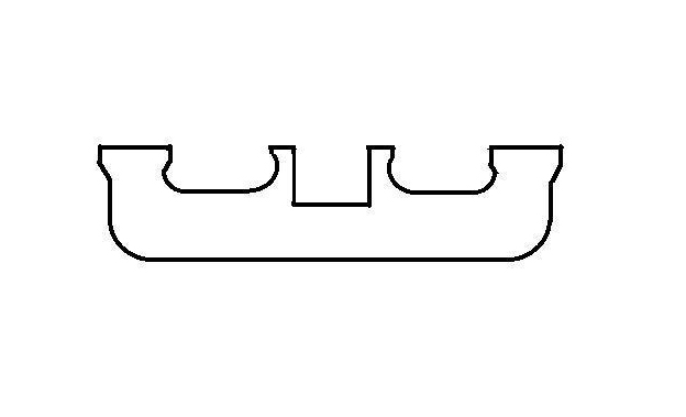 Horizontal bracket in Chinese architecture 正心瓜栱